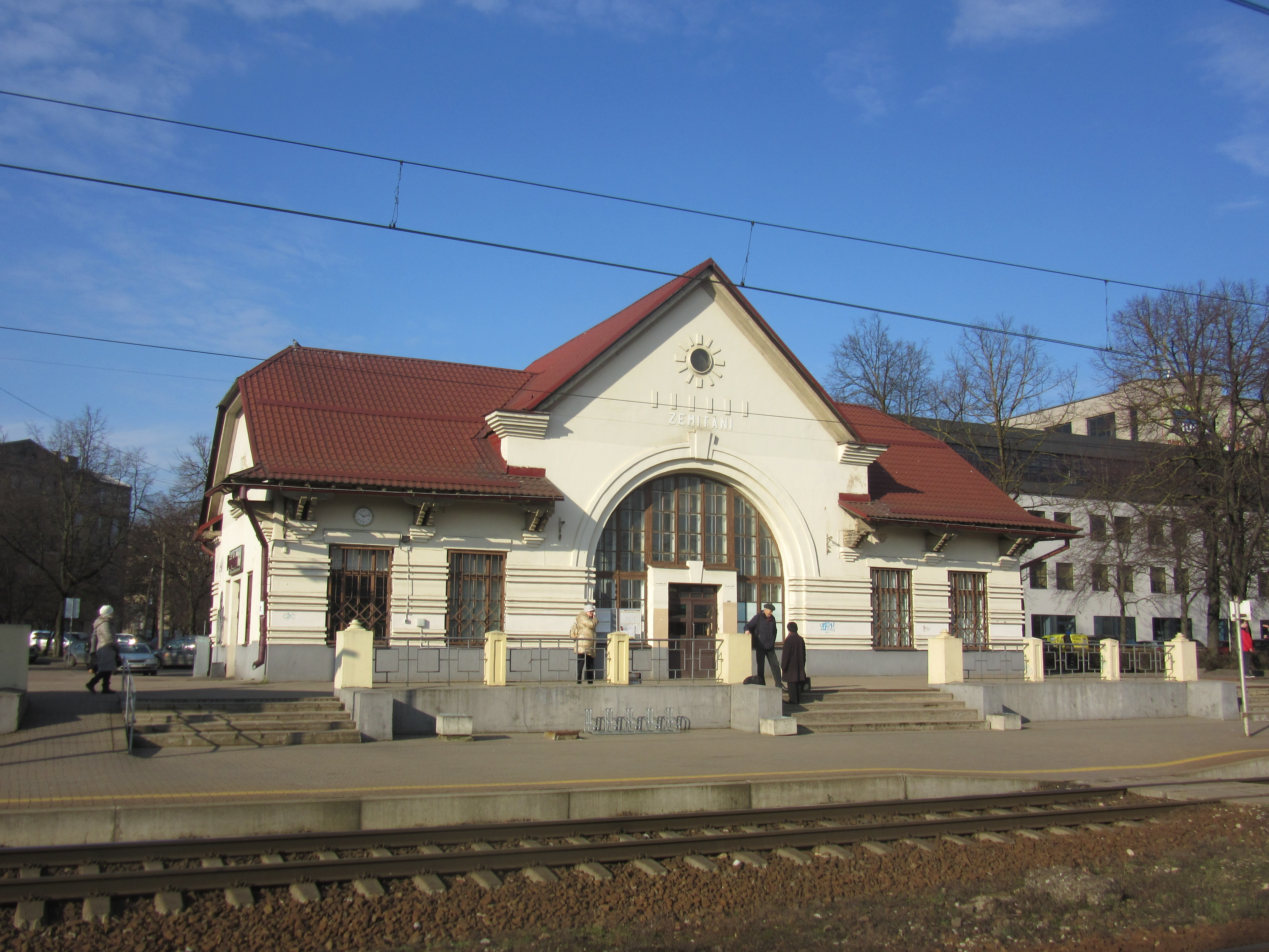 Zemtani station